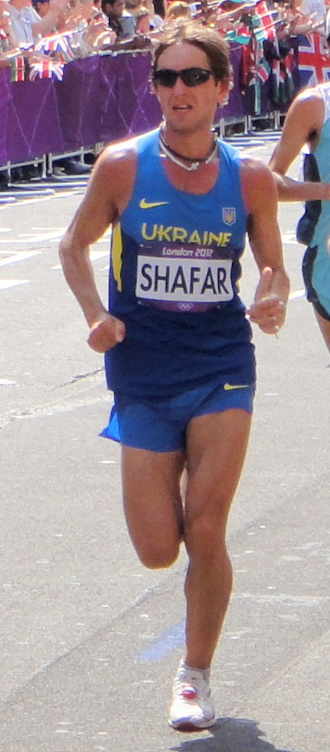 Vitaliy Shafar (Ukraine) and Eric Gillis (Canada) - London 2012 Men's Marathon